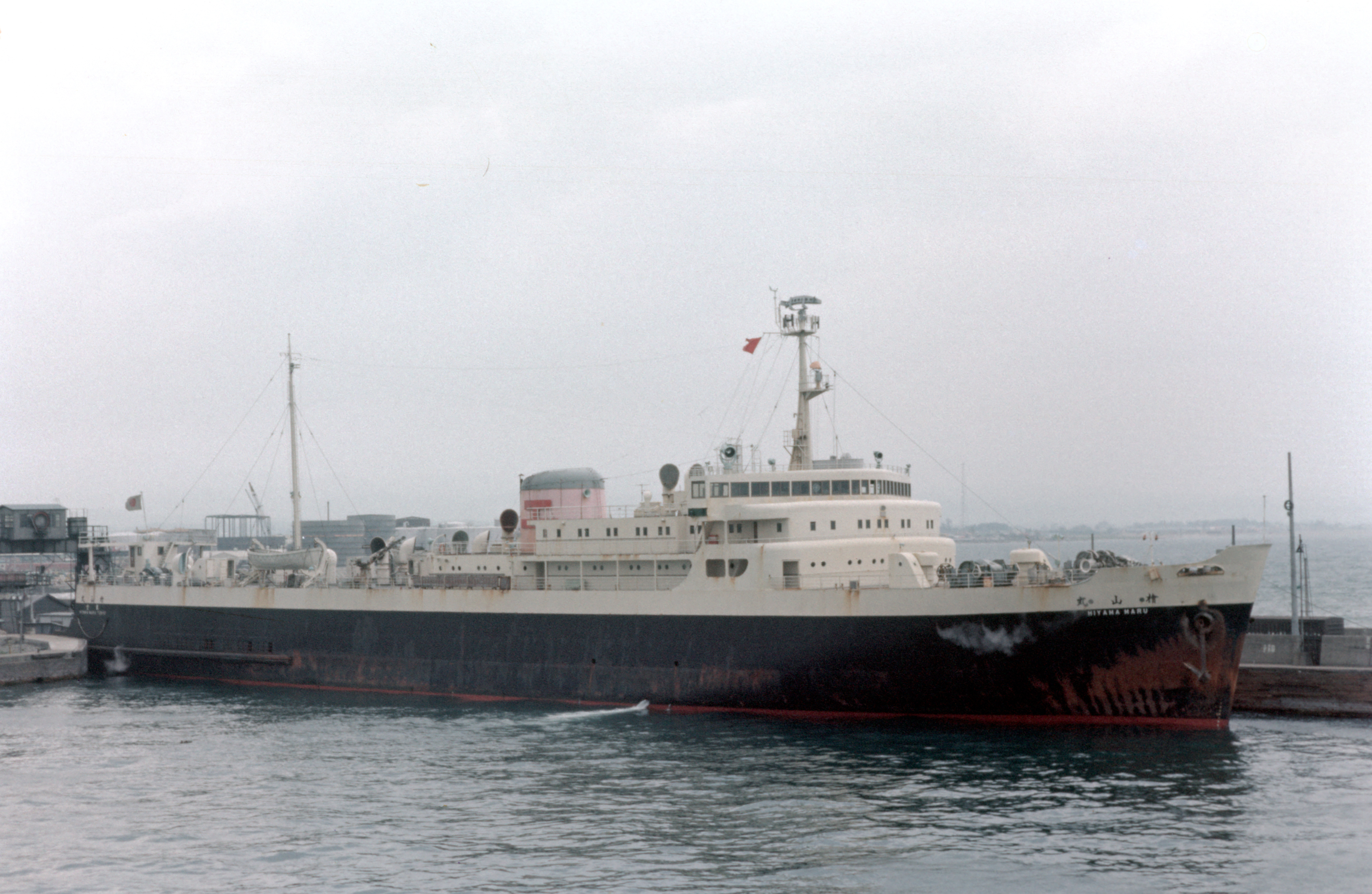 The Japanese National Railways train ferry between Aomori and Hakodate MS HIYAMA MARU 1 in Aomori No.3 pier.